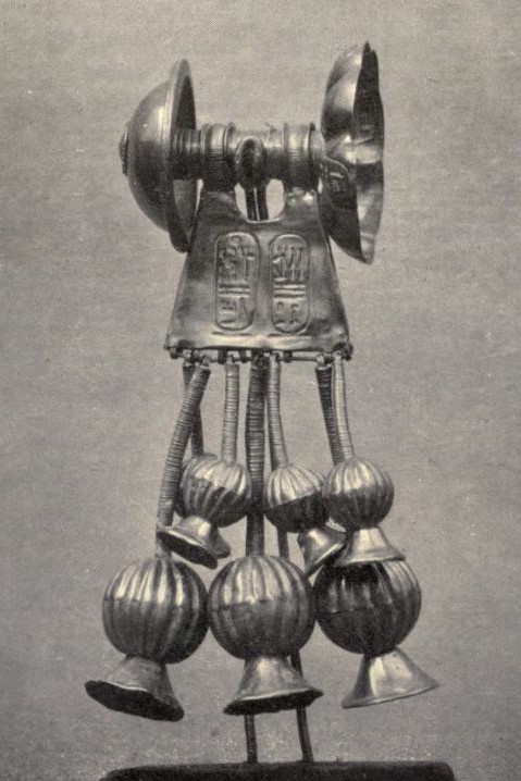 Gold earring of the female pharaoh Tausert, end of the 19th Dynasty, New Kingdom. Now in Cairo Museum. Photo by Emile Brugsch.